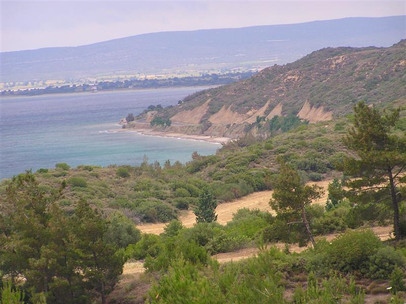 ANZAC Cove